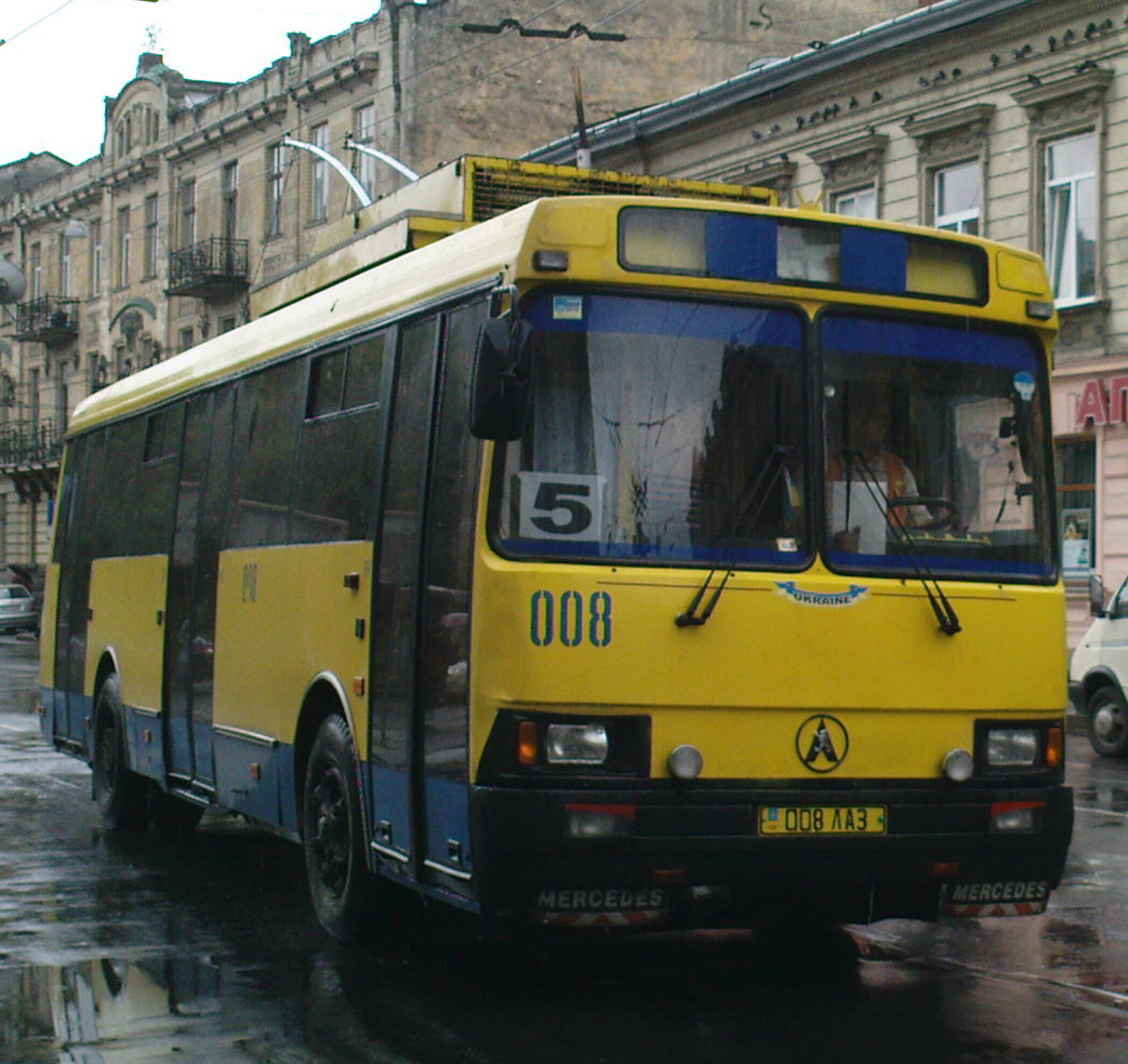 LAZ 52522